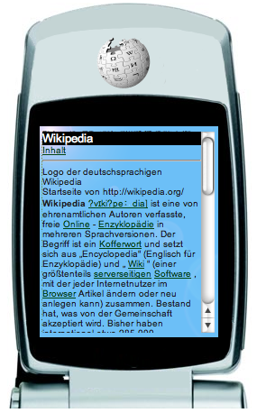 screenshot of